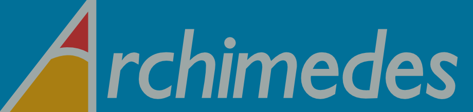 Logo of Acorn Archimedes